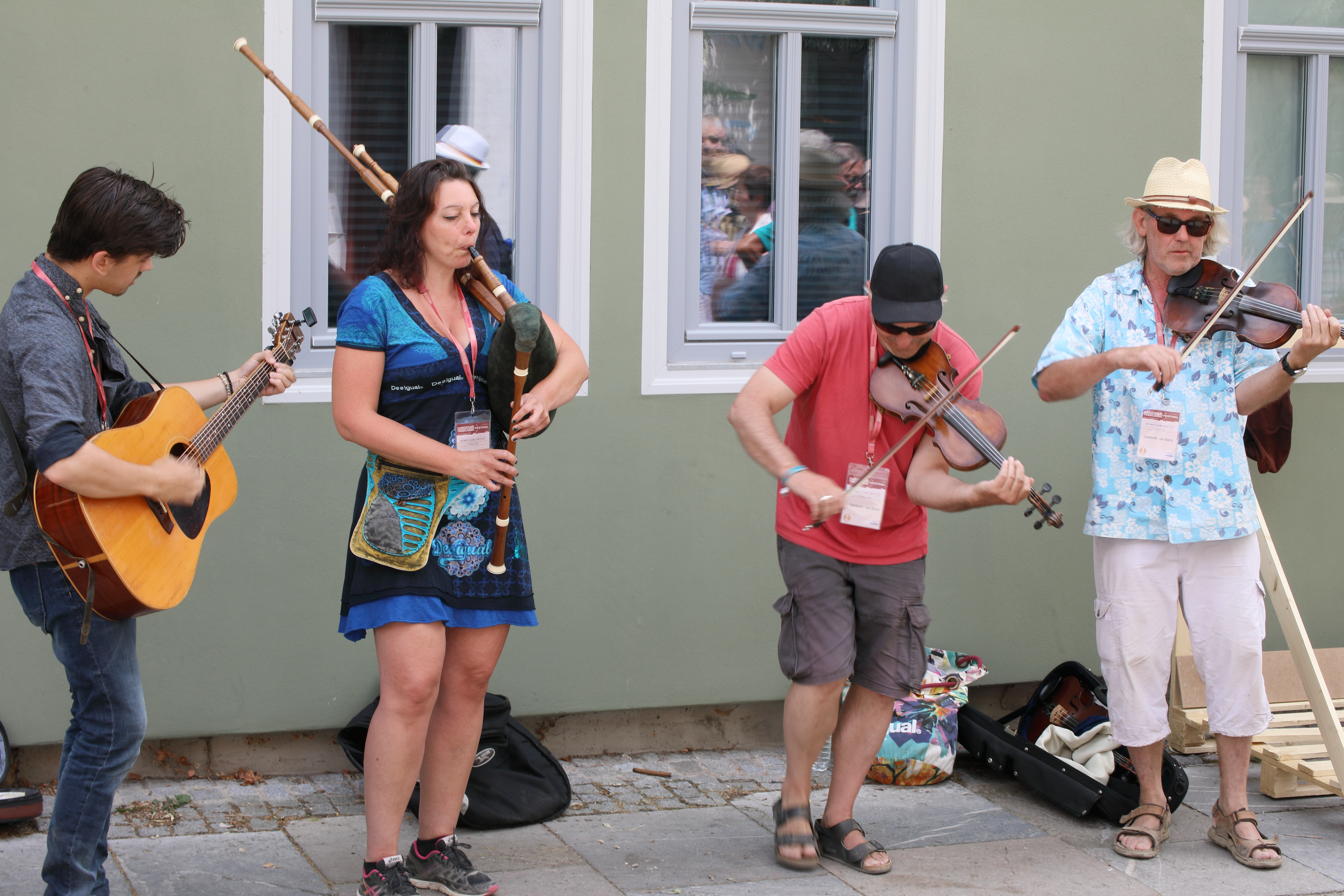 Dahlhoff - die Band at Rudolstadt-Festival 2019. The band plays solely music from the collection of Westfalia´s artists family Dahlhoff since the beginning of the 17. century.